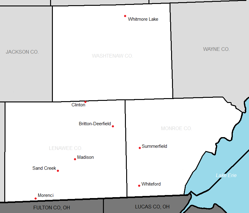 Map showing the locations of the TCC members.